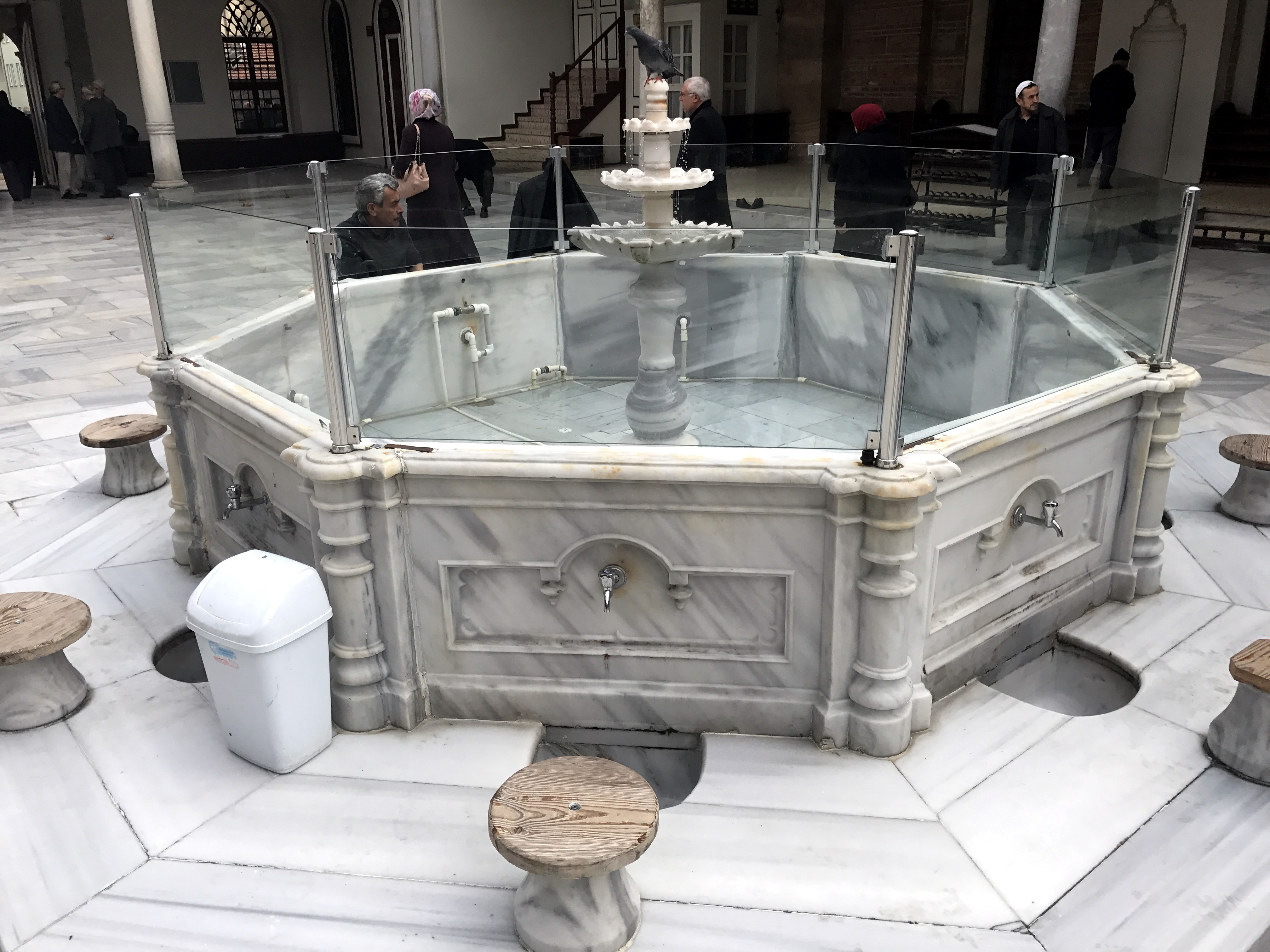 Emir Sultan Mosque in Bursa, Turkey.